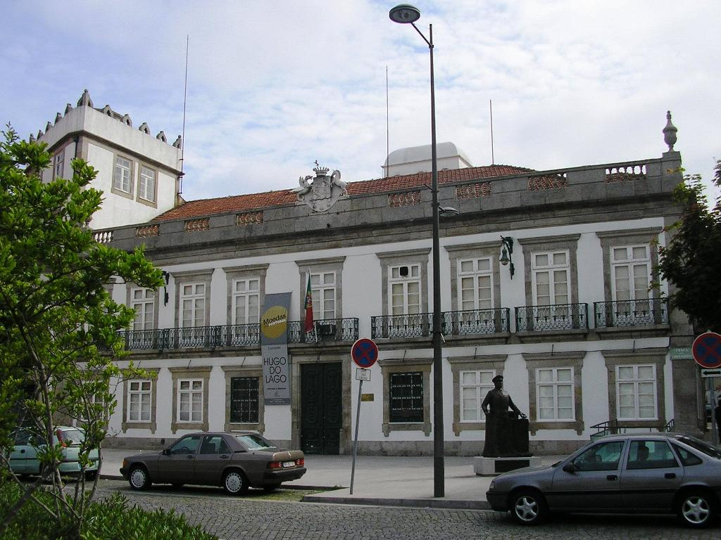 Palace of the Viscounts of Balsemão or former building of SMGE, in Porto city, Portugal.